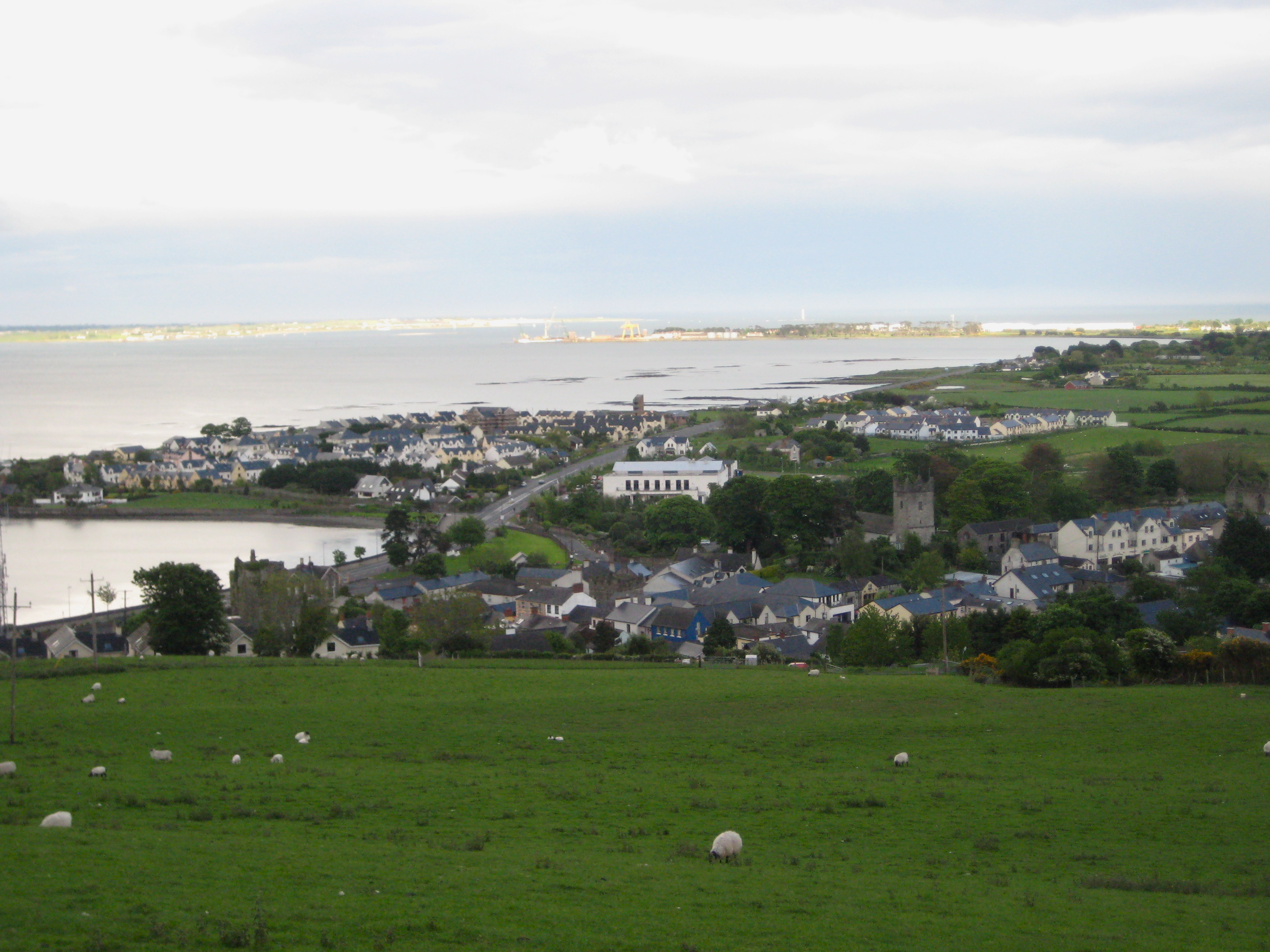 Image of Carlingford in Co. Louth, Ireland